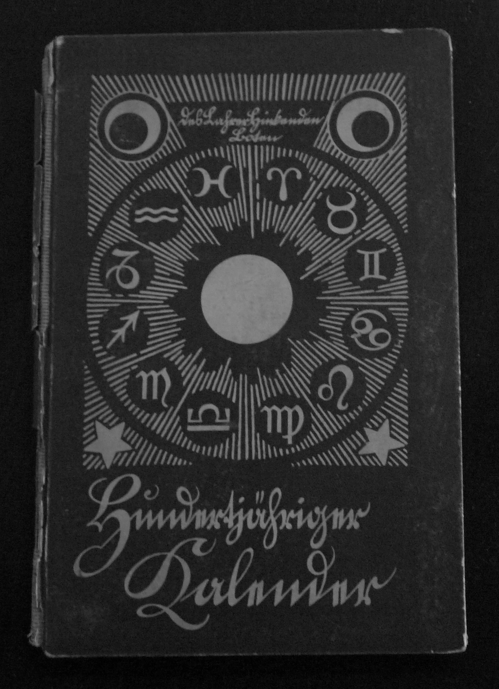 Hundertjähriger Kalender. Lahr: Schauenburg 1924